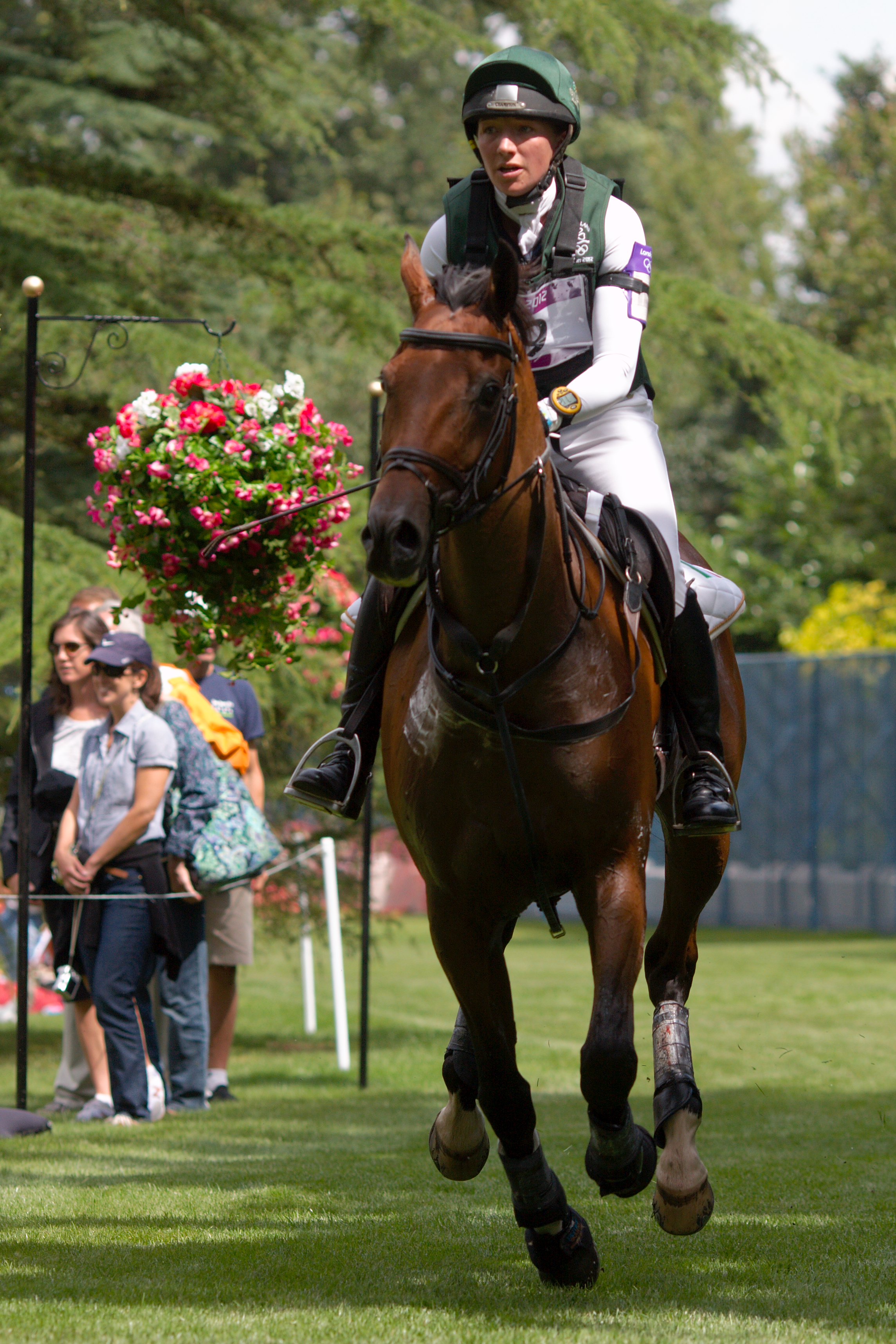 Aoife Clark and Master Crusoe, competing for IRL, during the cross-country phase of the Eventing during the 2012 Olympic Games in Greenwich Park, London.